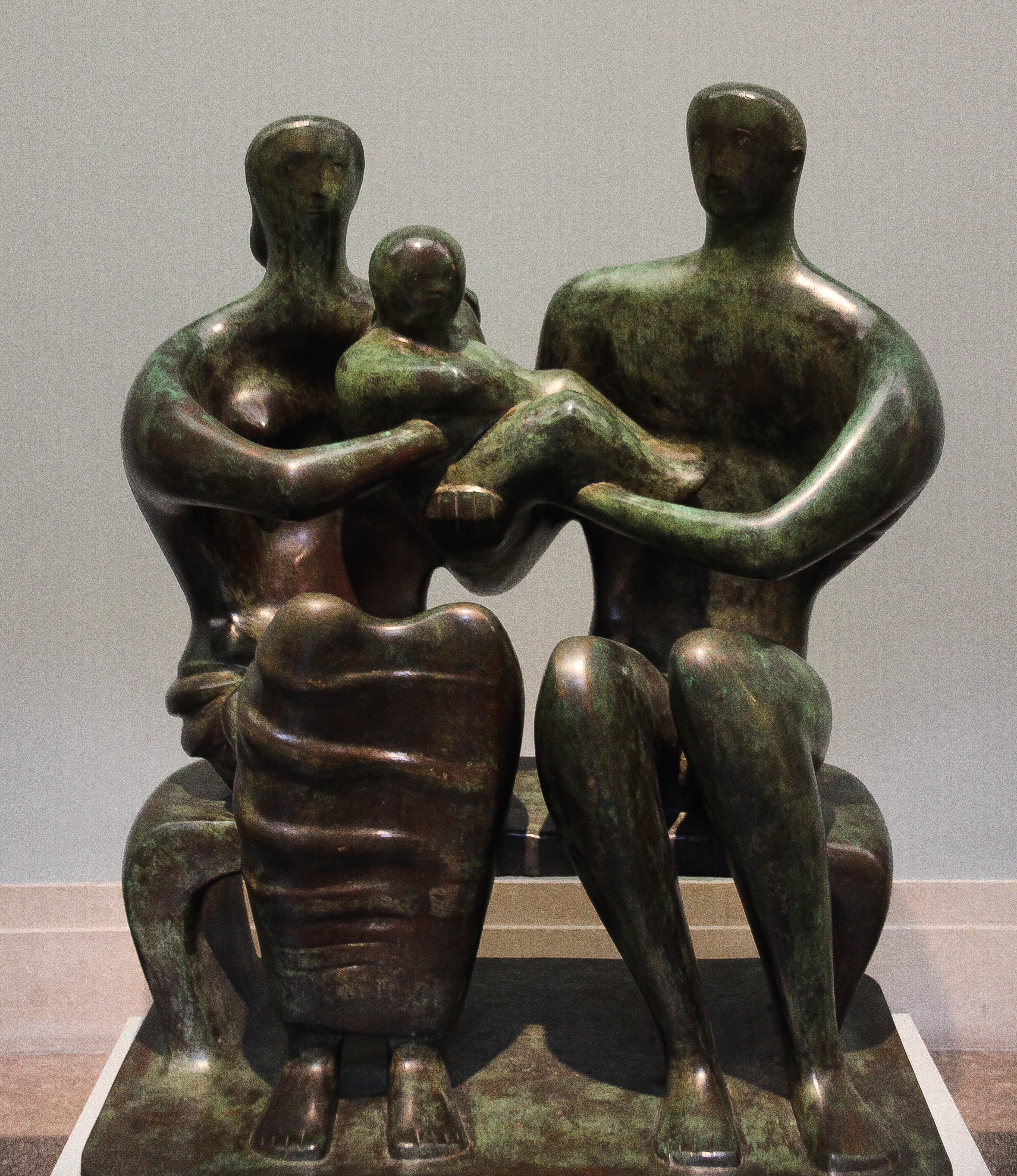 Family Group, 1949, exhibited at Tate Britain